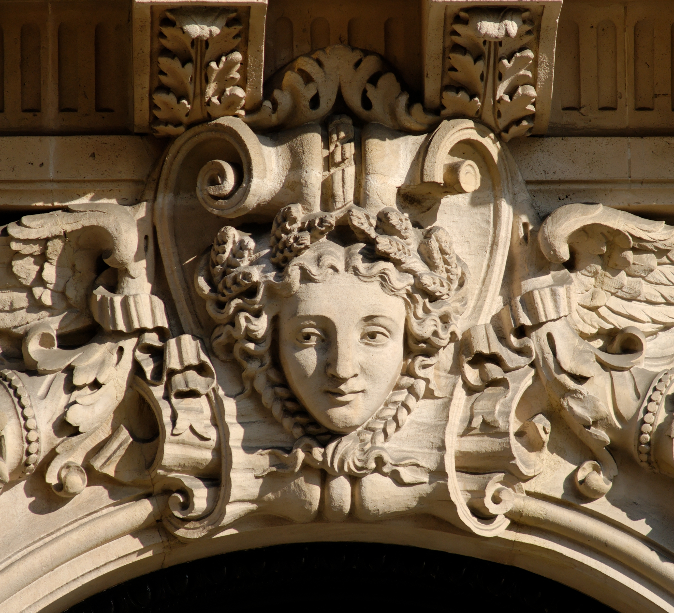 Mascaron over the door of a 19th century builing, 8 avenue de l'Opéra, Paris.